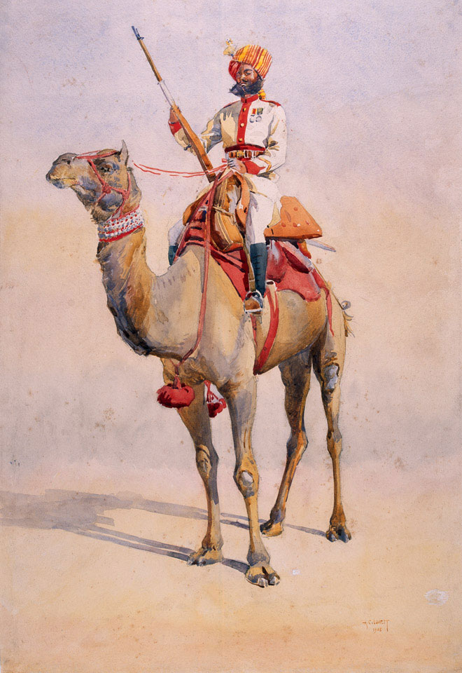 A sowar of the Bikaner Camel Corps. Original source : From a watercolour by AC Lovett 1910. Published in MacMunn & Lovett, Armies of India, 1911.